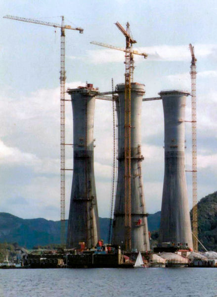 This is an off shore oil platform under construction in Norway, taken in early 1980s. User:Bluemoose See also Image:Condeep small.png; smaller, but has better colours.